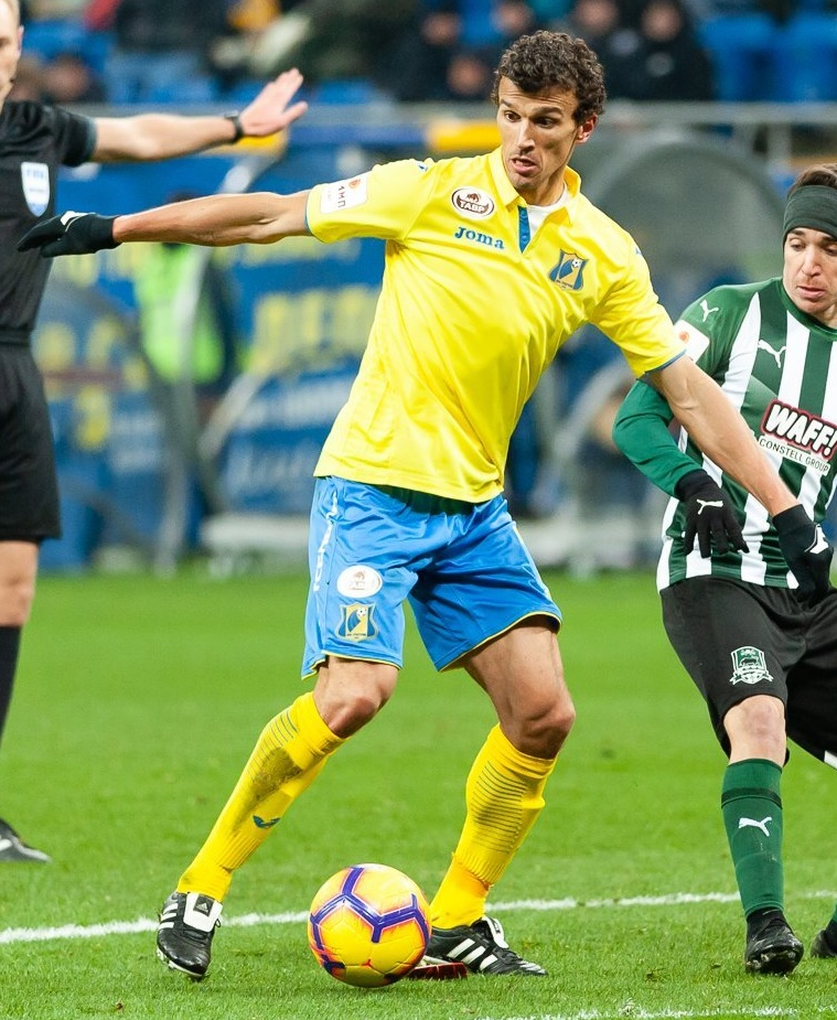 Roman Eremenko with FC Rostov in a Russian Cup game against FC Krasnodar.